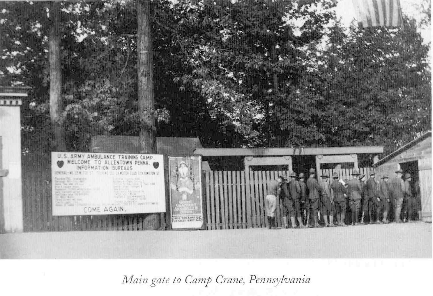 Main gate to Camp Crane, Allentown, Pennsylvania, northeast corner of 17th & Chew Streets